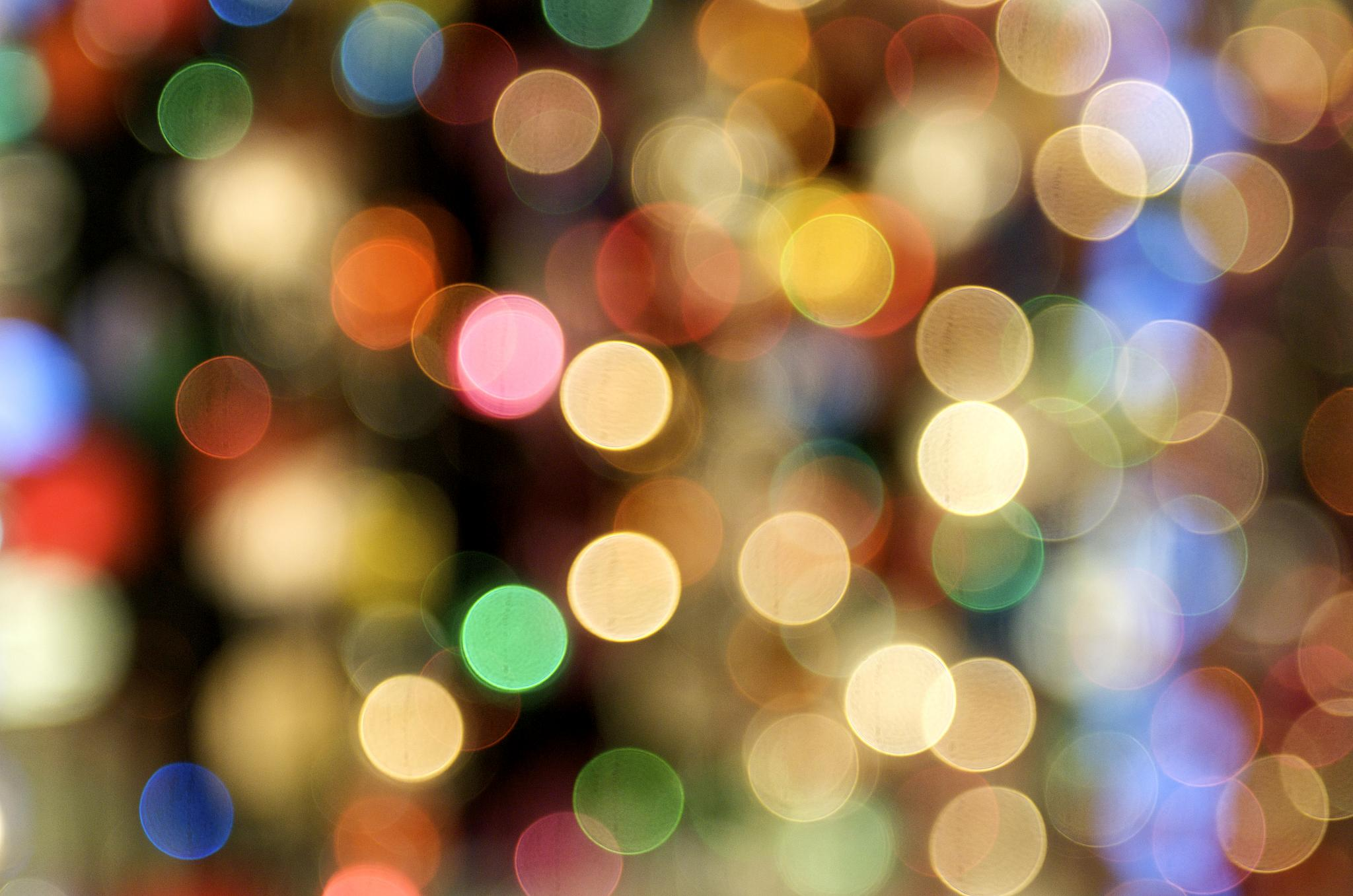 Happy Christmas 2008